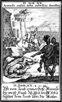 Woodcut of the narrative from 2 Samuel 20